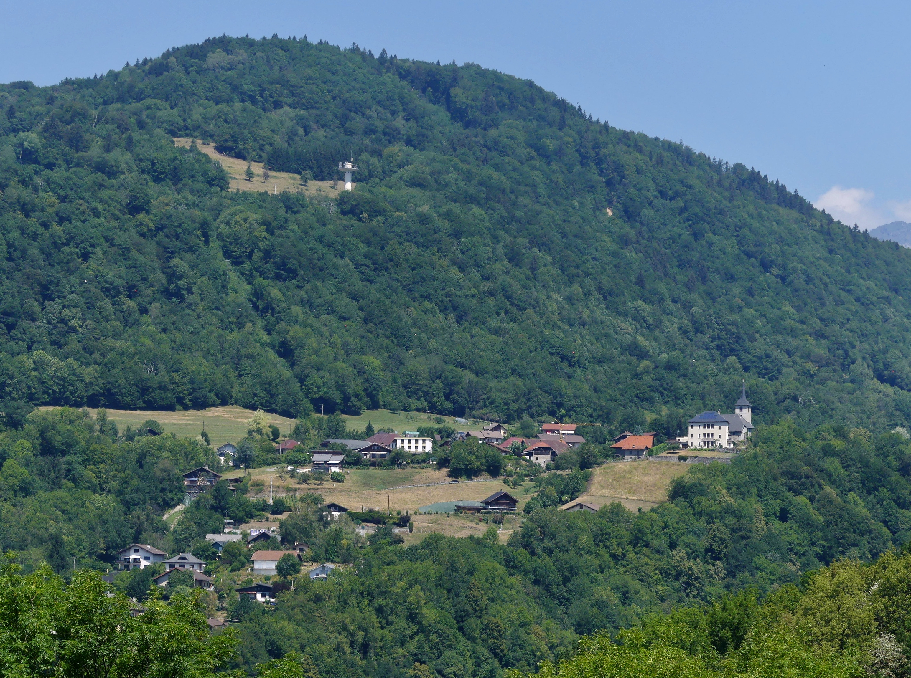 Remote view, from Conflans on the heights of Albertville, of Pallud village, in Savoie, France.